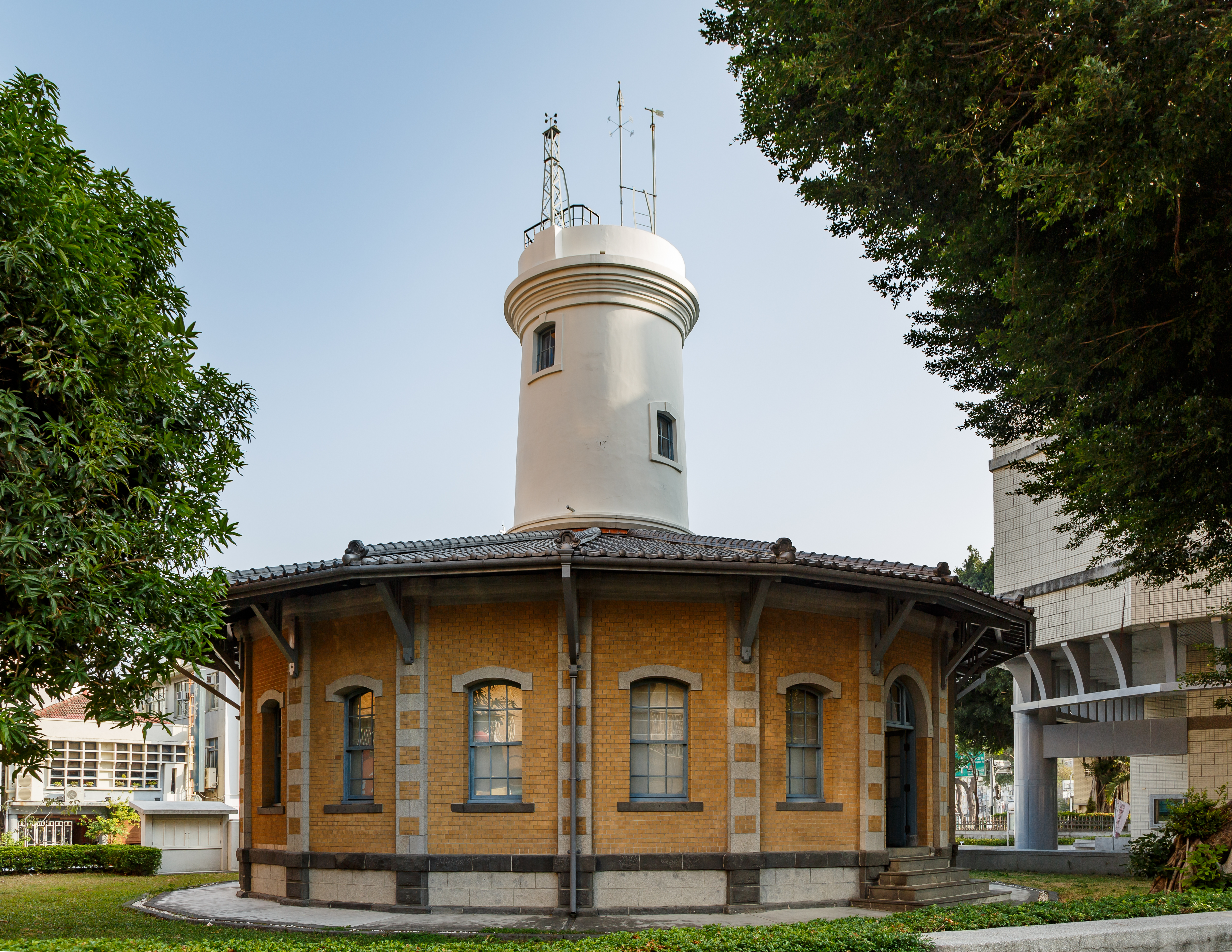 Tainan, Taiwan: Former Meteorological Station